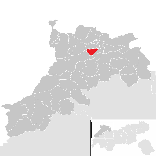 District Reutte